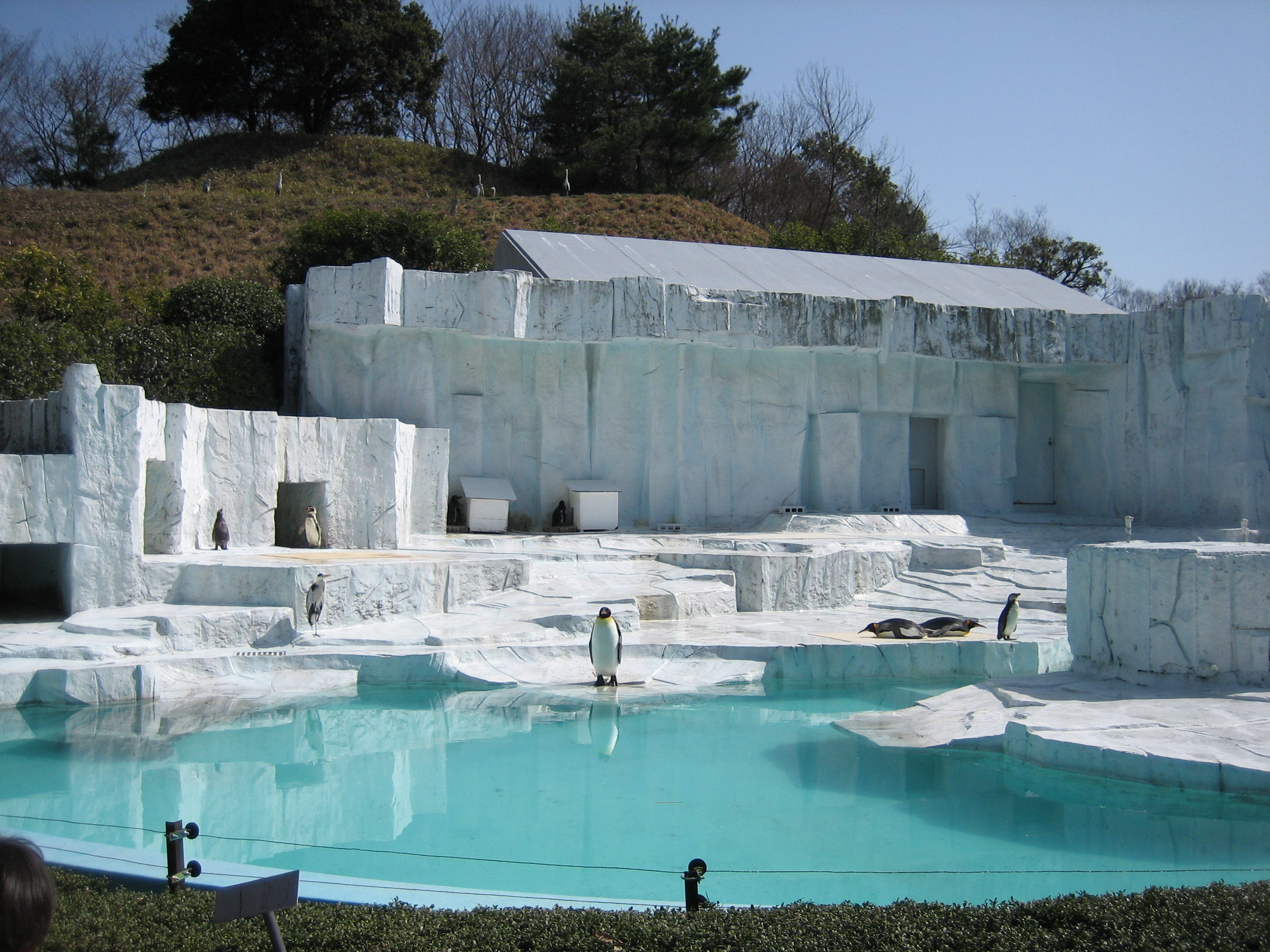 Tobe Zoological Park of Ehime Pref. Tobe-town, Japan.